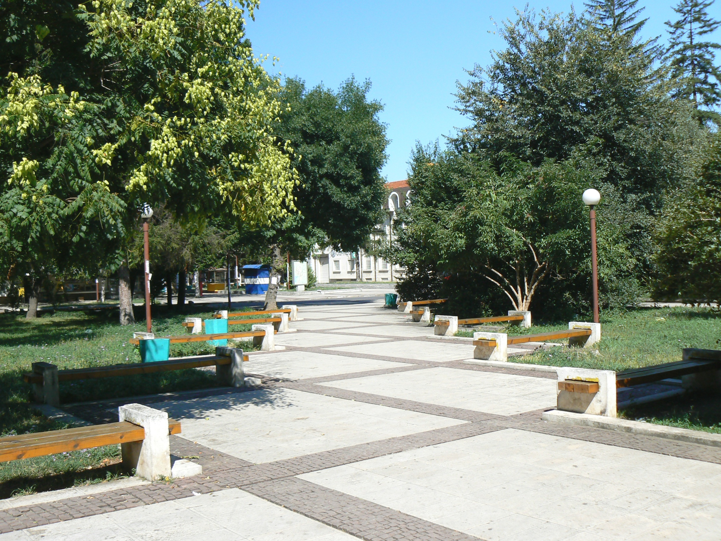 The park near Sts. Cyril and Methodius Church in Montana, Bulgaria